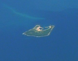 Tongpan Island, also known as "Tongpan Basalt", is the most magnificent island among basalt poles in the Penghu archipelago.